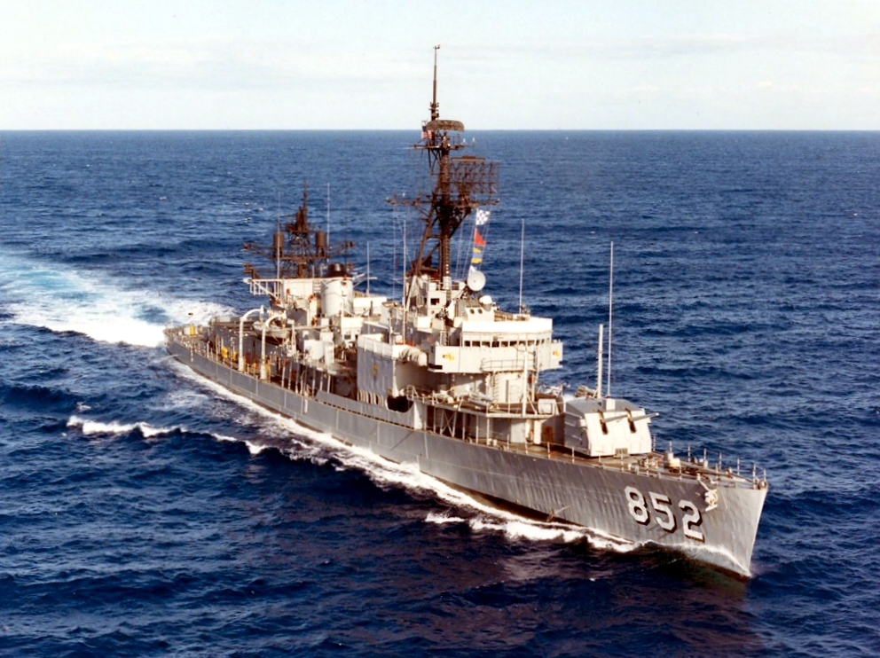 The U.S. Navy destroyser USS Leonard F. Mason (DD-852) underway in 1974.